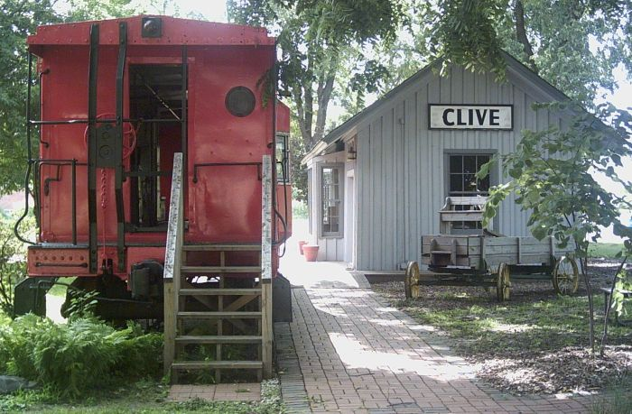 Restored train depot in Clive, Iowa